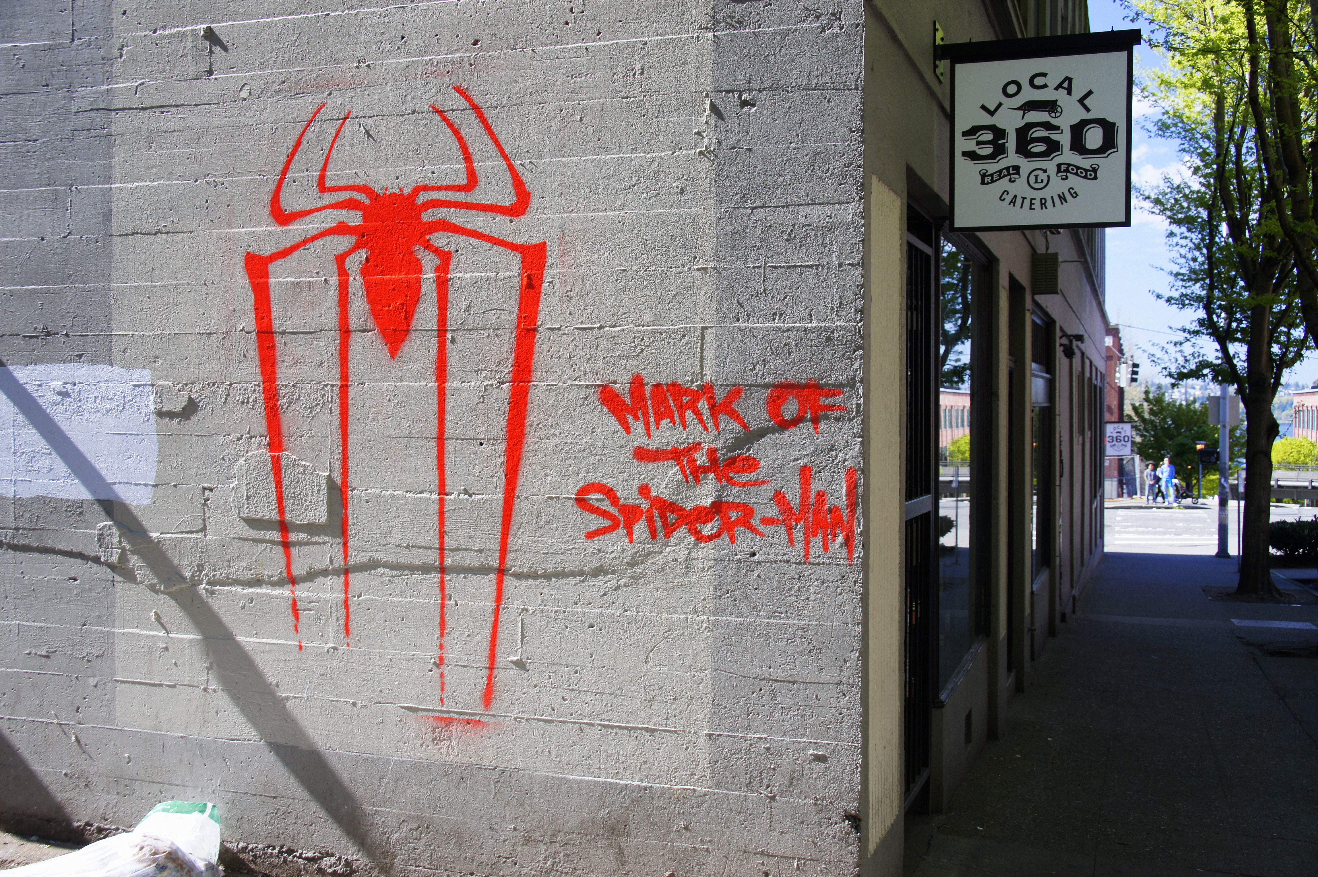 Graffiti of the logo of Spider-Man that says "Mark of the Spider-Man" done in Seattle, Washington by operatives for the viral campaign for The Amazing Spider-Man.